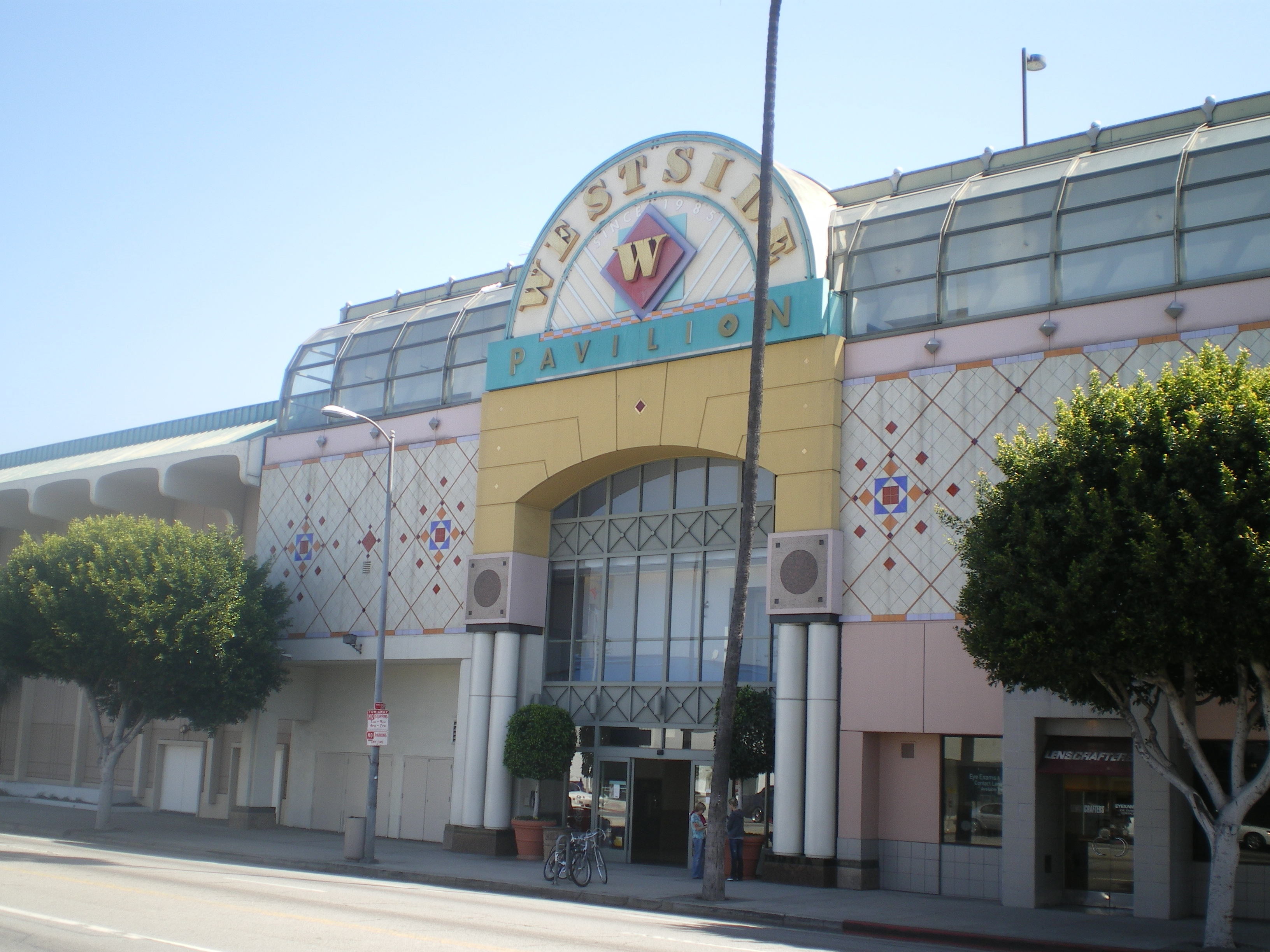 Westside Pavilion, Pico & Westwood, Los Angeles, CA